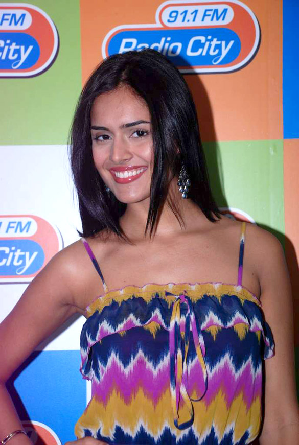 Nathalia Kaur and RGV promote 'Department' at Radio City 91.1 FM.